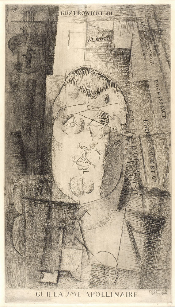 Portrait de Guillaume Apollinaire. (Milet 33). Etching, aquatint and drypoint, 1912-20, sixth (final) state, signed, numbered 27/30. Plate: 49.0 x 27.7 cm